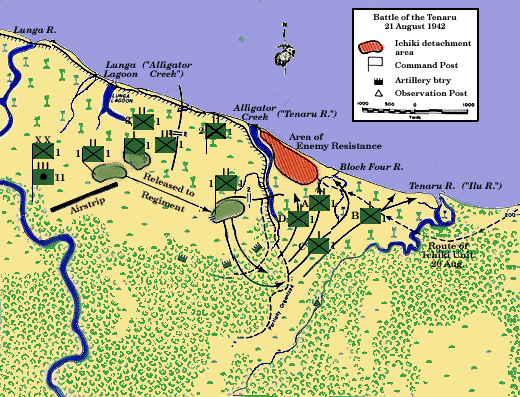 Allied Lunga perimiter and Battle of the Tanaru River, Guadalcanal, 21 August 1942.